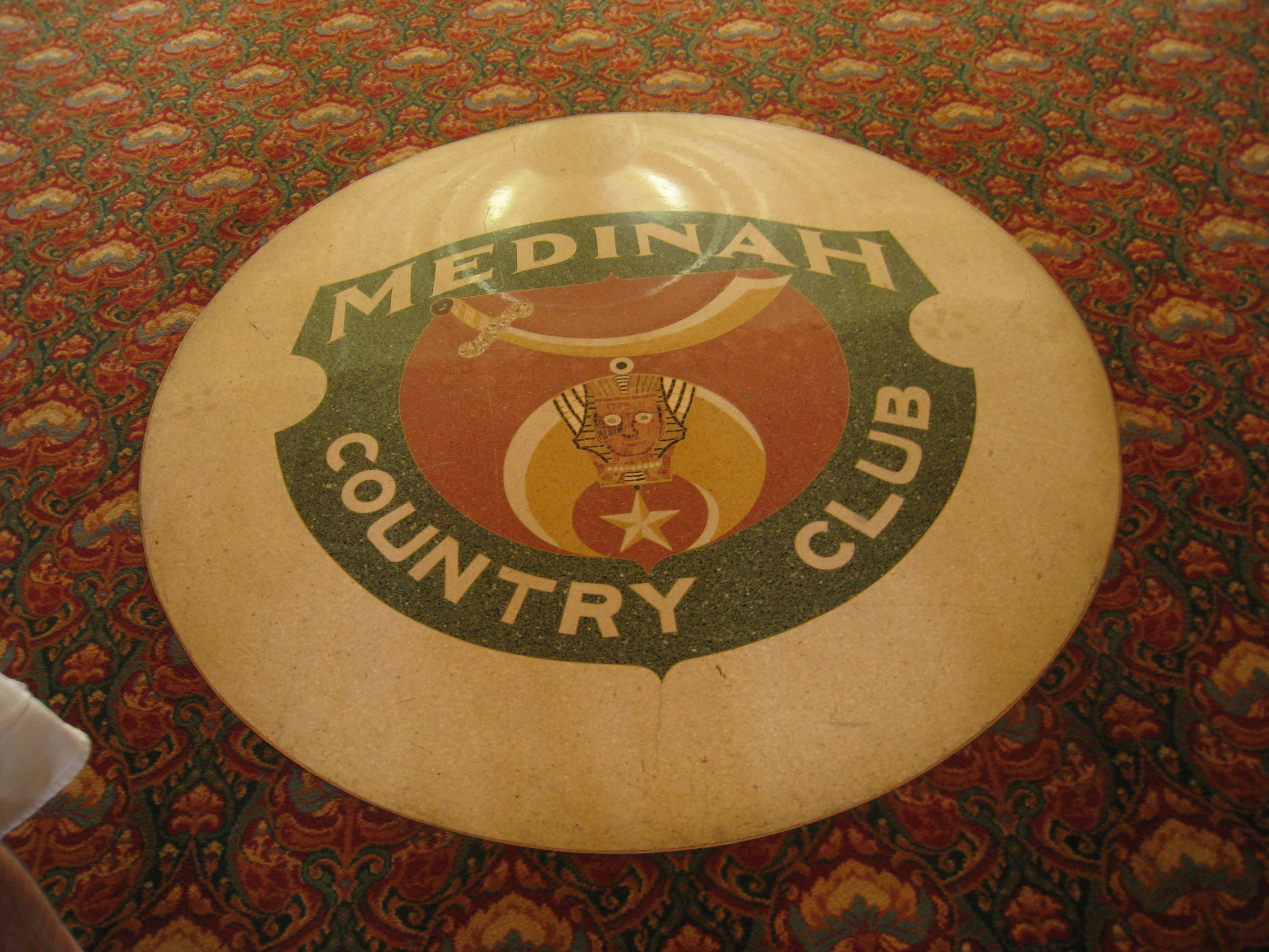 Inside the clubhouse. We were told that when they redid the clubhouse, and tore out the old carpet, this was underneath. Wow. My review of Medinah Country Club , including a tour of the clubhouse.